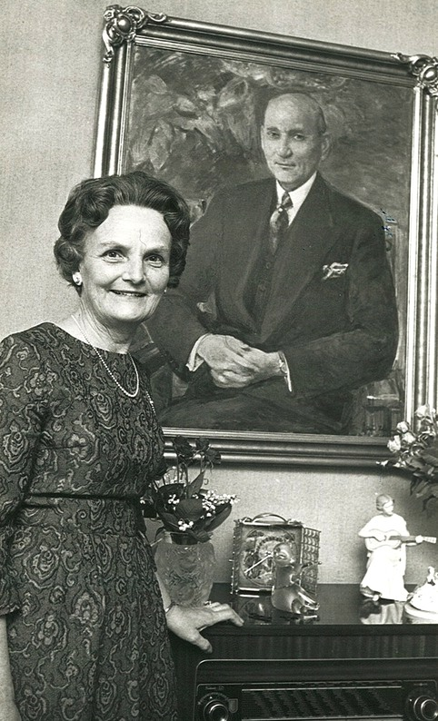 Dagny Haraldsen, mother of queen Sonja of Norway.